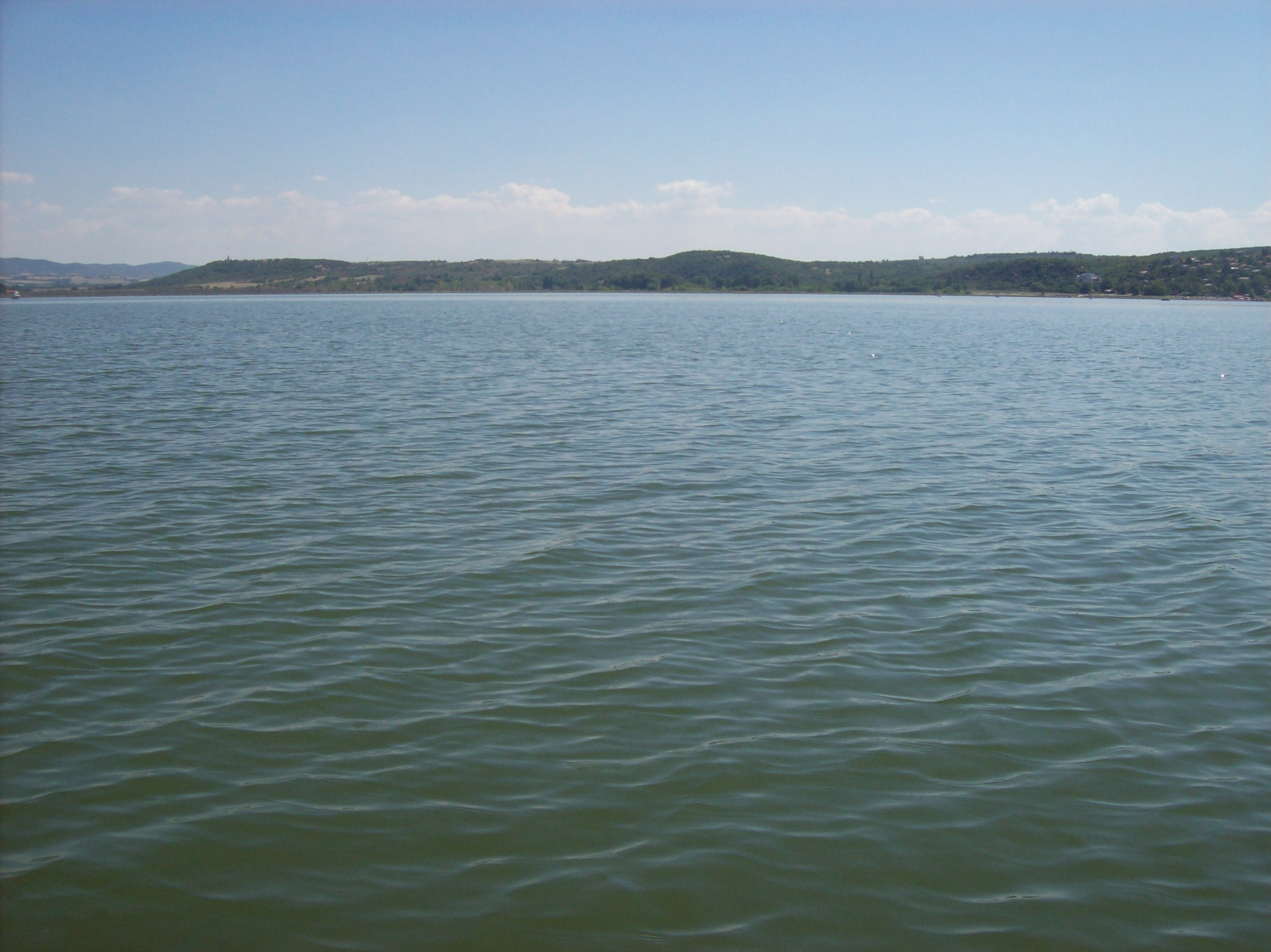 Star Dojran, Macedonia